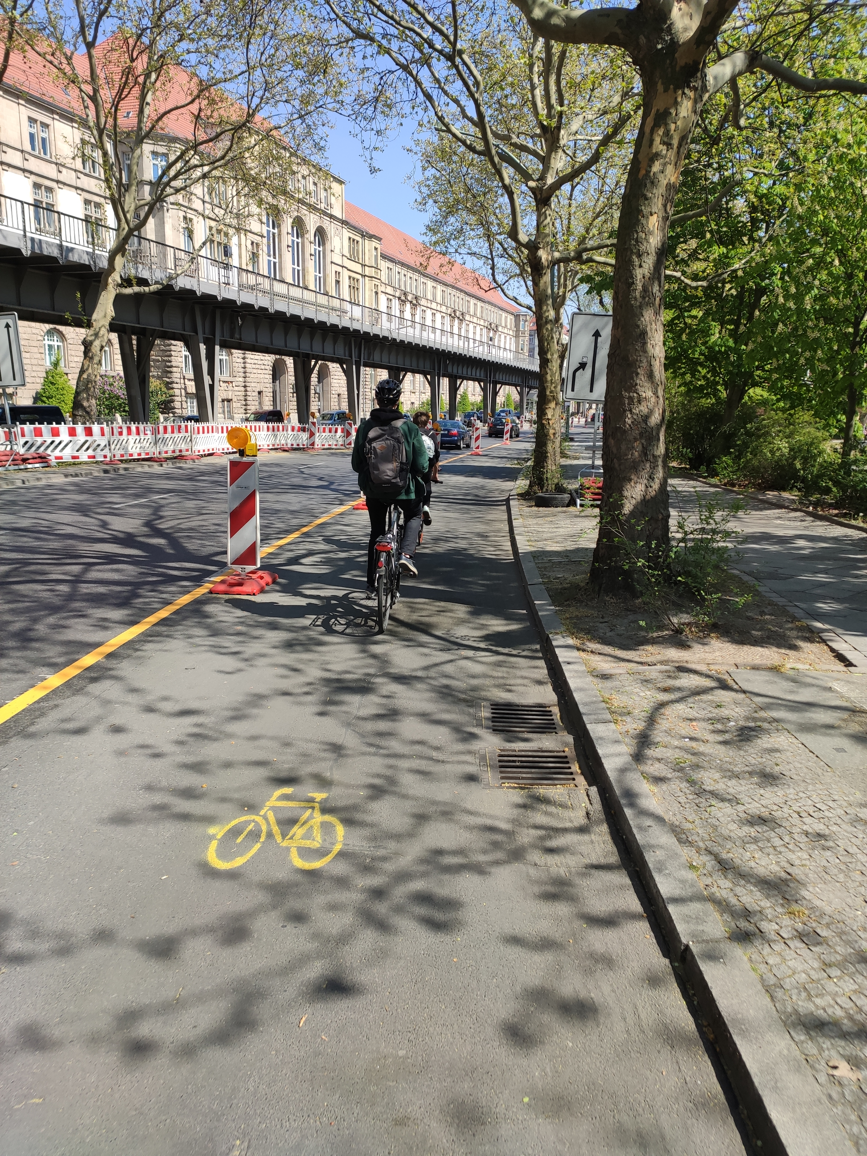 A pop up cycle lane initiated during the Covid19 pandemic in spring 2020 in Berlin